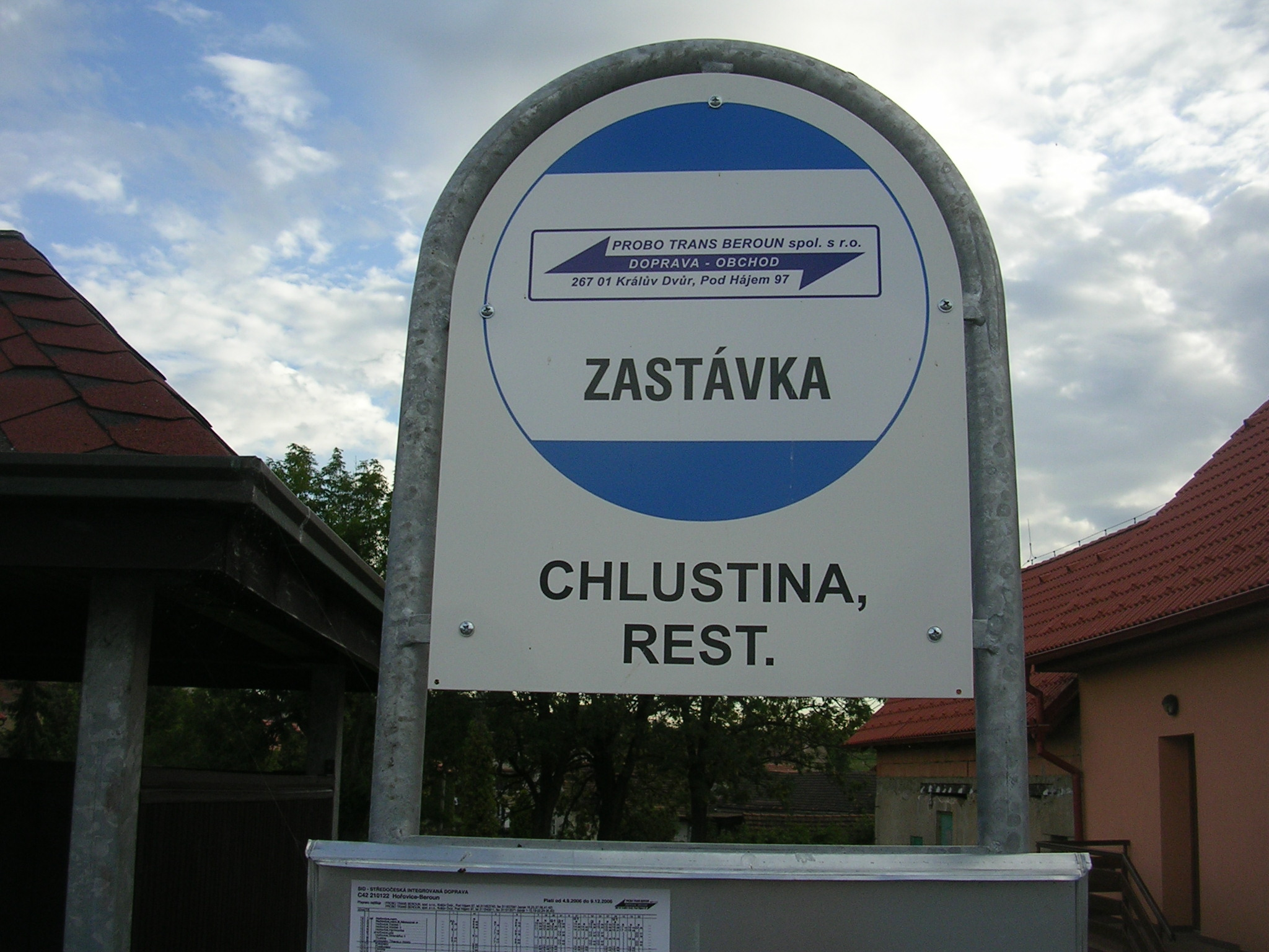 Chlustina, Beroun District, Central Bohemian Region, the Czech Republic. A bus stop near the pond.